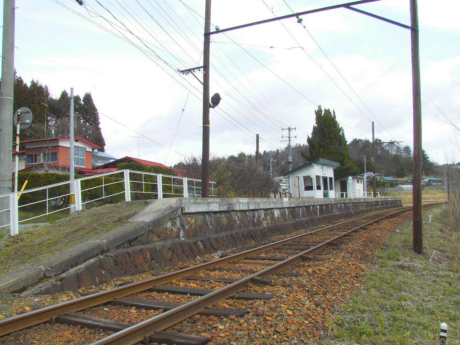 Uguisuzawa Kōgyōkōkō Mae Station of the Kurigara Denen Railway. Kurihara, Miyagi prefecture, Japan.